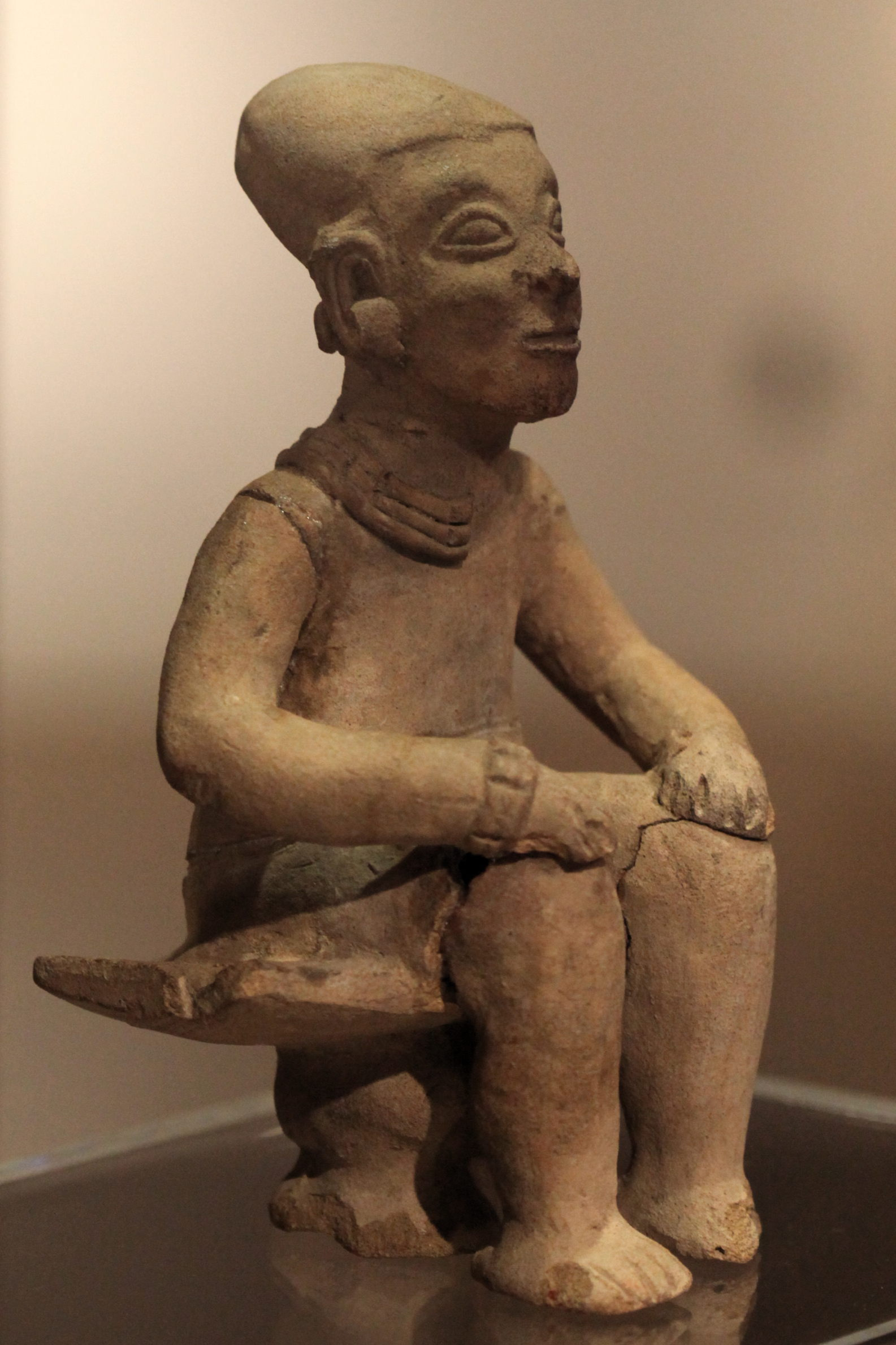 Shamanic figure sitting on a seat of power. La Tolita culture, Ecuador, circa 500 CE.